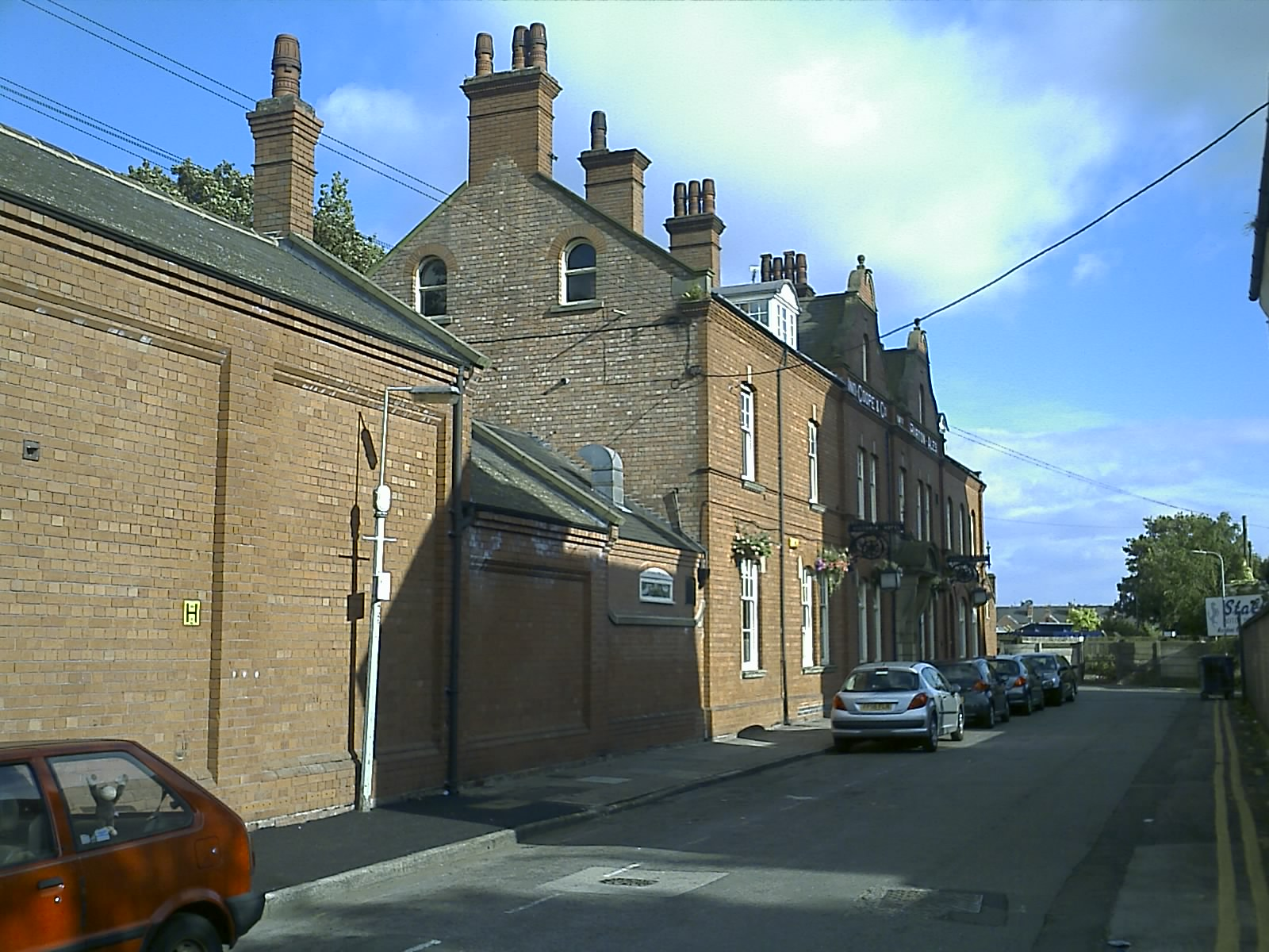 The Victoria Hotel in Beeston, Nottinghamshire